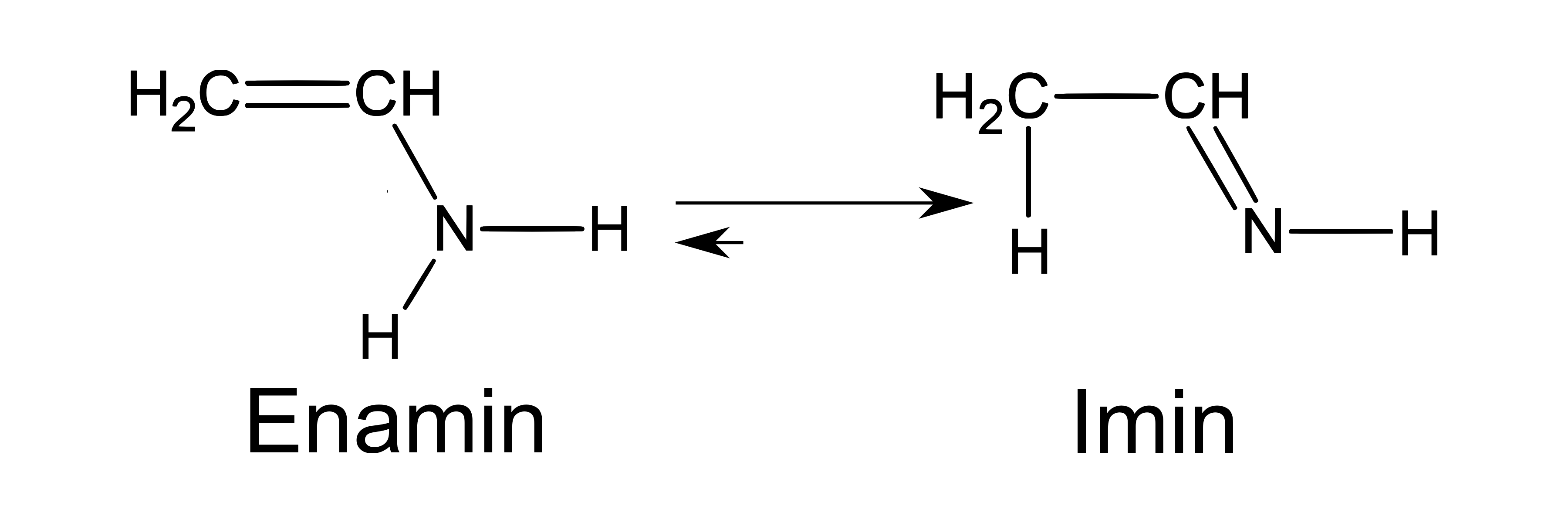 Enamine-Imine-Tautomer of vinylamine